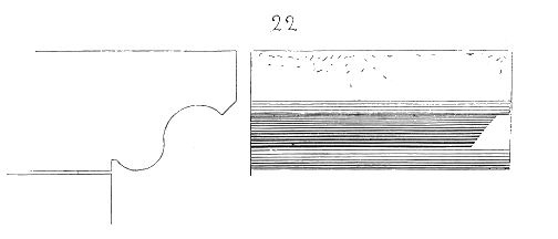 The profiles of these cornices are cut so that the lower edge of the listel drain water away from the facings, if the first rank of tiles or slates does not fulfill this function.